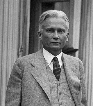 Senator Hiram Bingham in 1929.